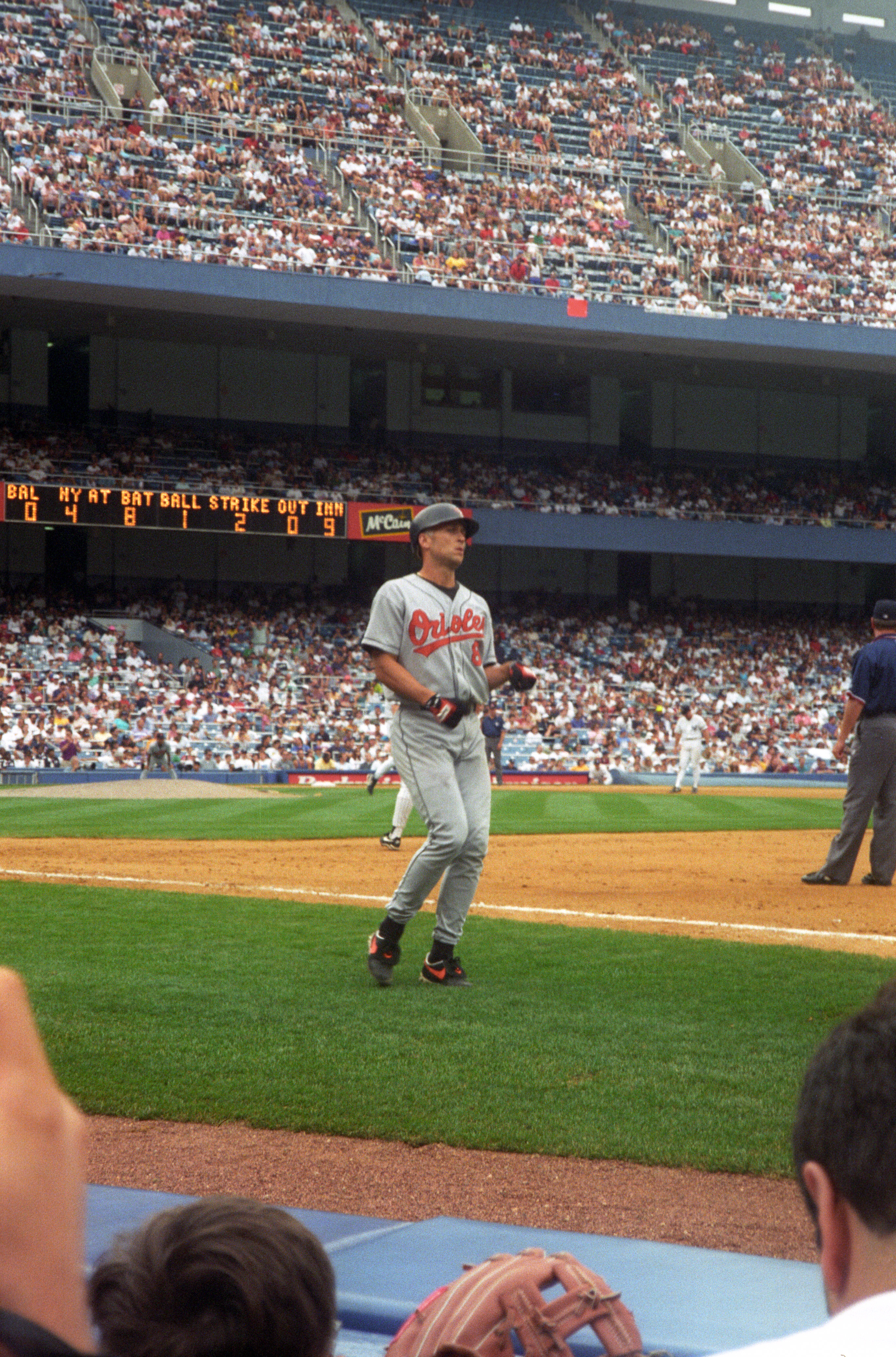 Baltimore Orioles at New York Yankees, June 29, 1996.